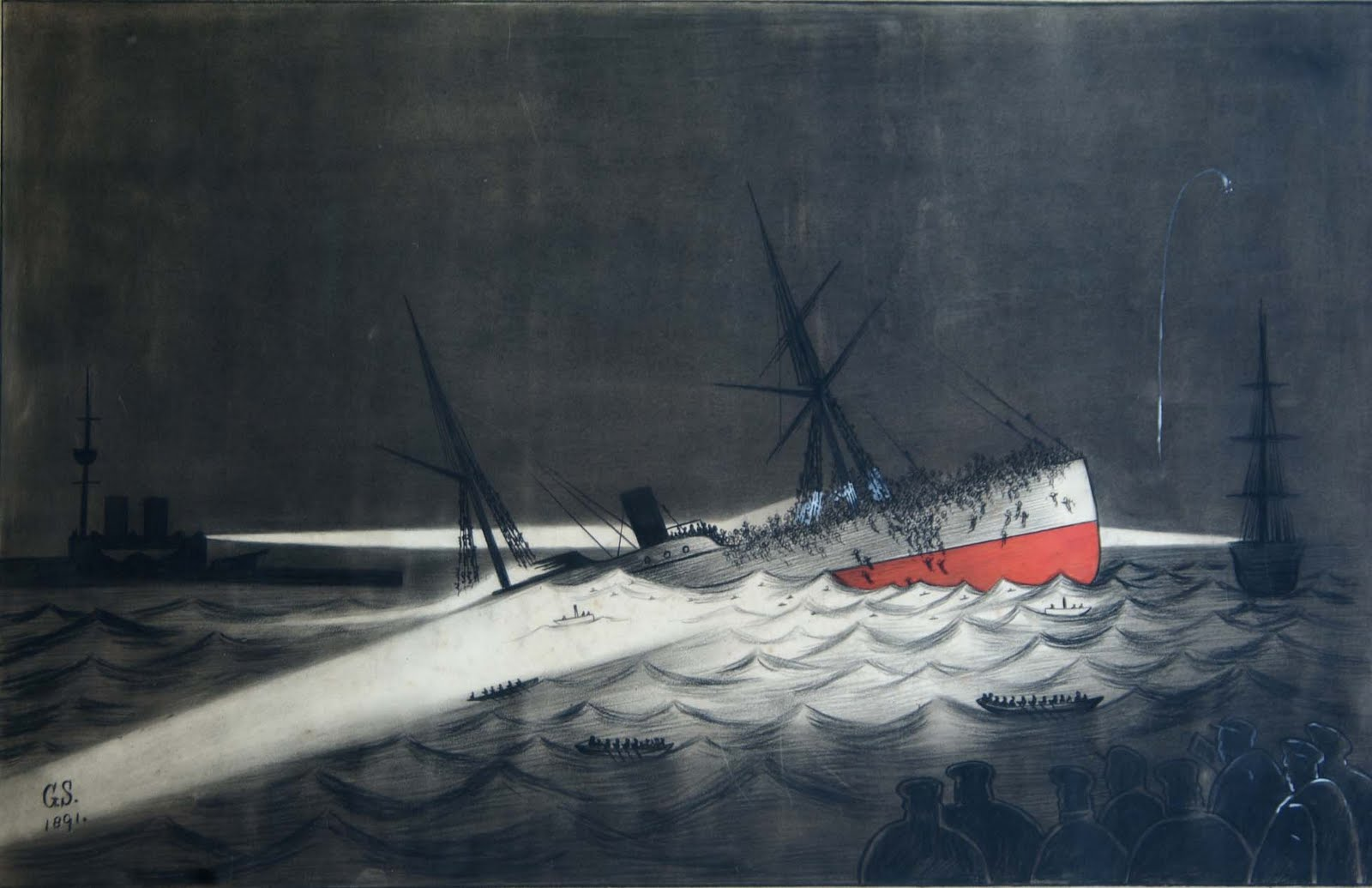 The sinking of SS Utopia (March 17, 1891, the Bay of Gibraltar) by Ms. Georgina Smith. Original caption: "sketch by Mrs Georgina Sheriff (courtesy Gibraltar Museum)". The site operator is Mr. Clive Finlayson, Gibraltar, Director of the Gibraltar Museum.